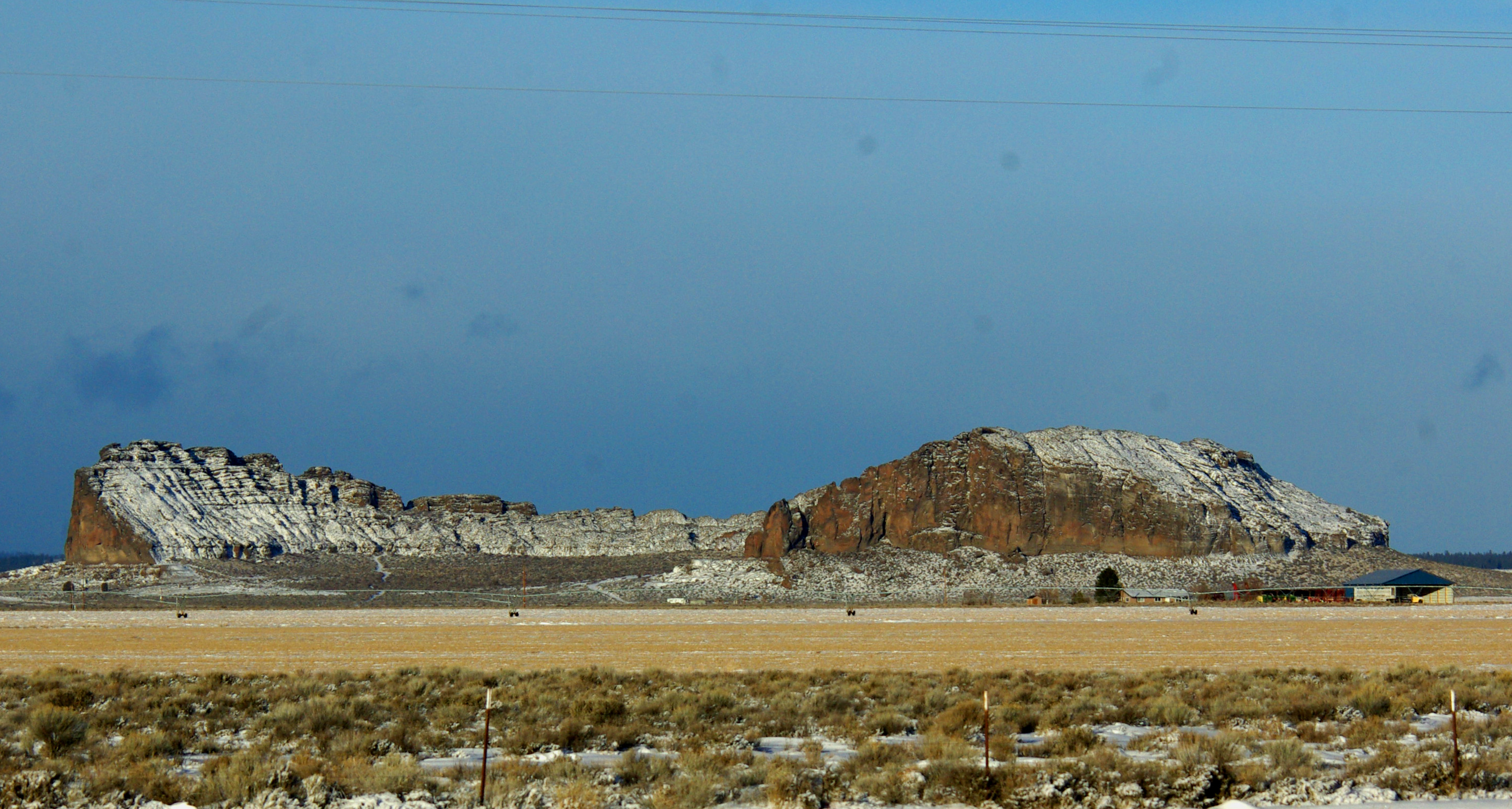 Fort Rock in Lake County as seen in Winter looking NW